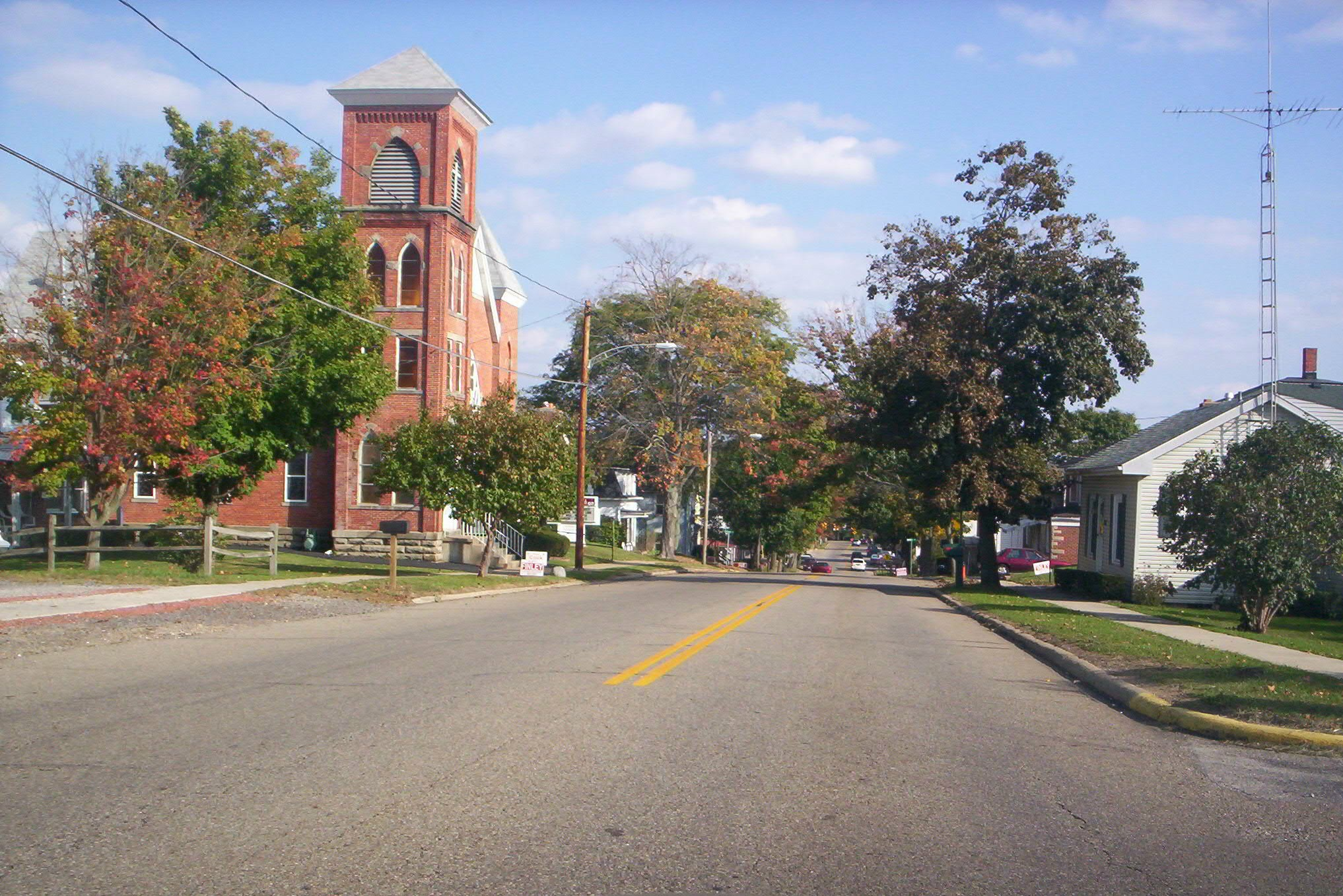 A view of West Main Street in Lucas, Ohio.